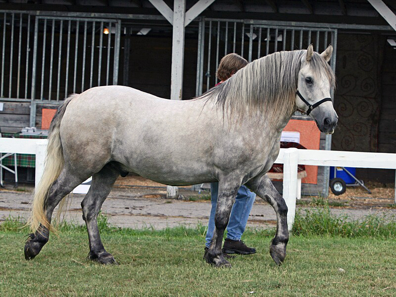 Image By HEather Abounader